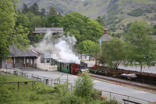 Padarn Park Station Padarn Park station is part of the Lake Railway providing the route beside the lake and the defunct quarry started in the autumn of 1970, when the dense growth of trees, gorse, heather and brambles was removed from the route, and the new track put down, using some rails salvaged from the quarry. The line was opened in July 1971, when visitors were able to travel to Cei Llydan; the route being extended further to Penllyn in 1972. In 2002, after many years of planning, the ambitious project to link the railway to Llanberis village got under way, including the laying of half a mile of track, two level crossings, the construction of a large river bridge and the building of a new terminal station. The new extension was opened to the public in June 2003.